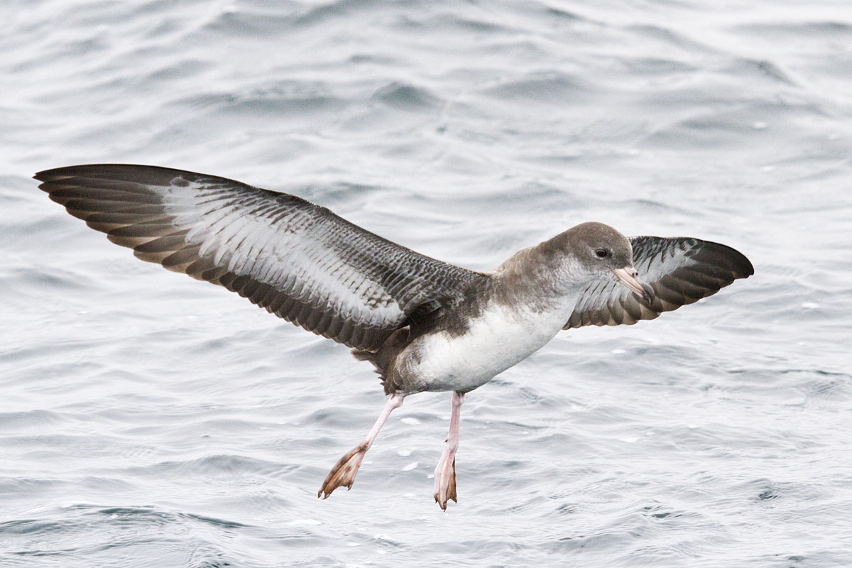 Puffinus creatopus, Monterey Bay, Monterey Co., CA, USA.